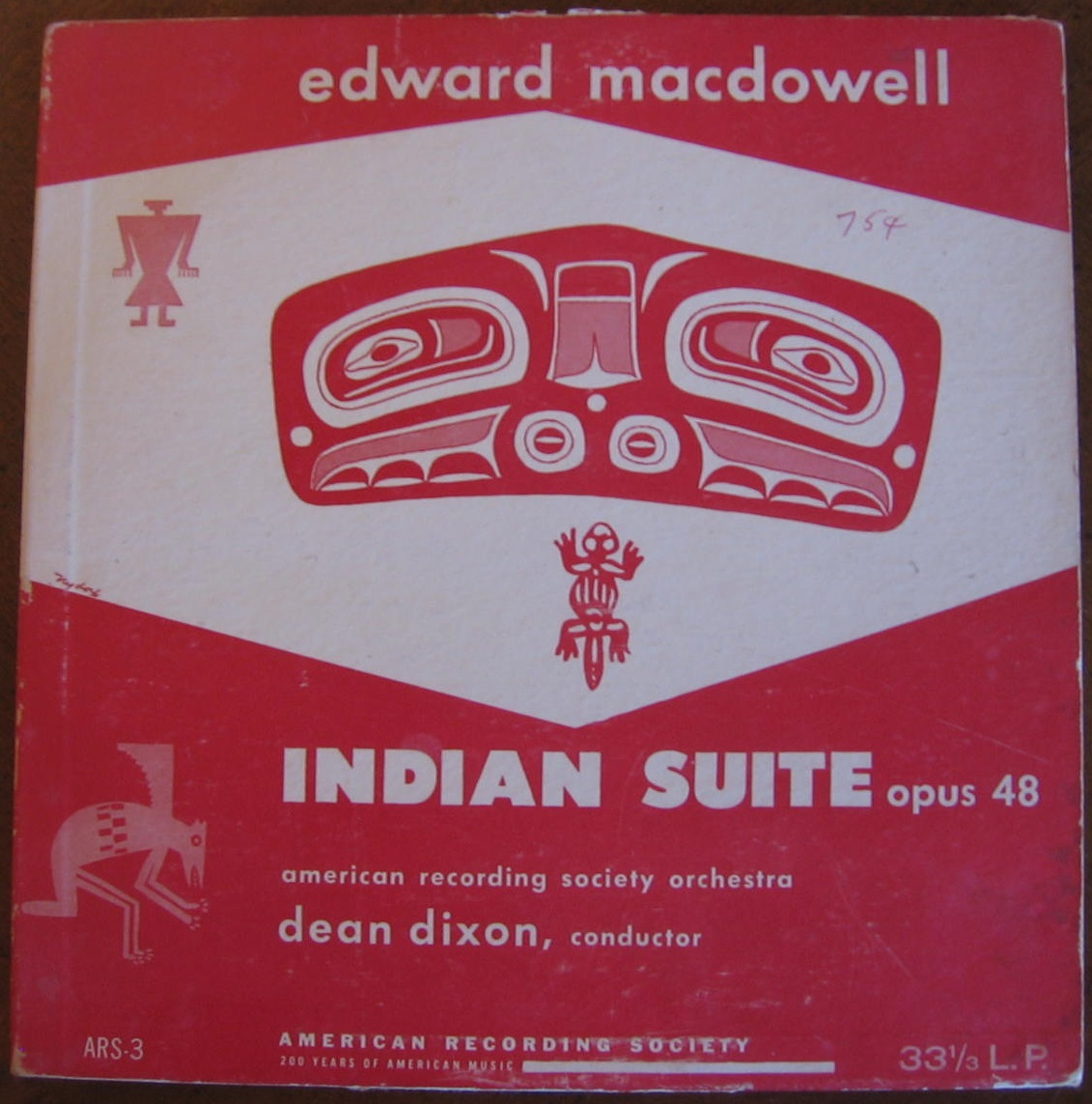 Indian Suite Opus 48 by Edward MacDowell American Recording Society ARS-3 back cover LP Dean Dixon, Condustor